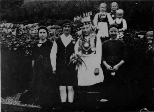 Midsummer mock wedding of two children in Norway, c. 1924. The girl (bride) is Marie Rosenlund (later married Ryssdal).